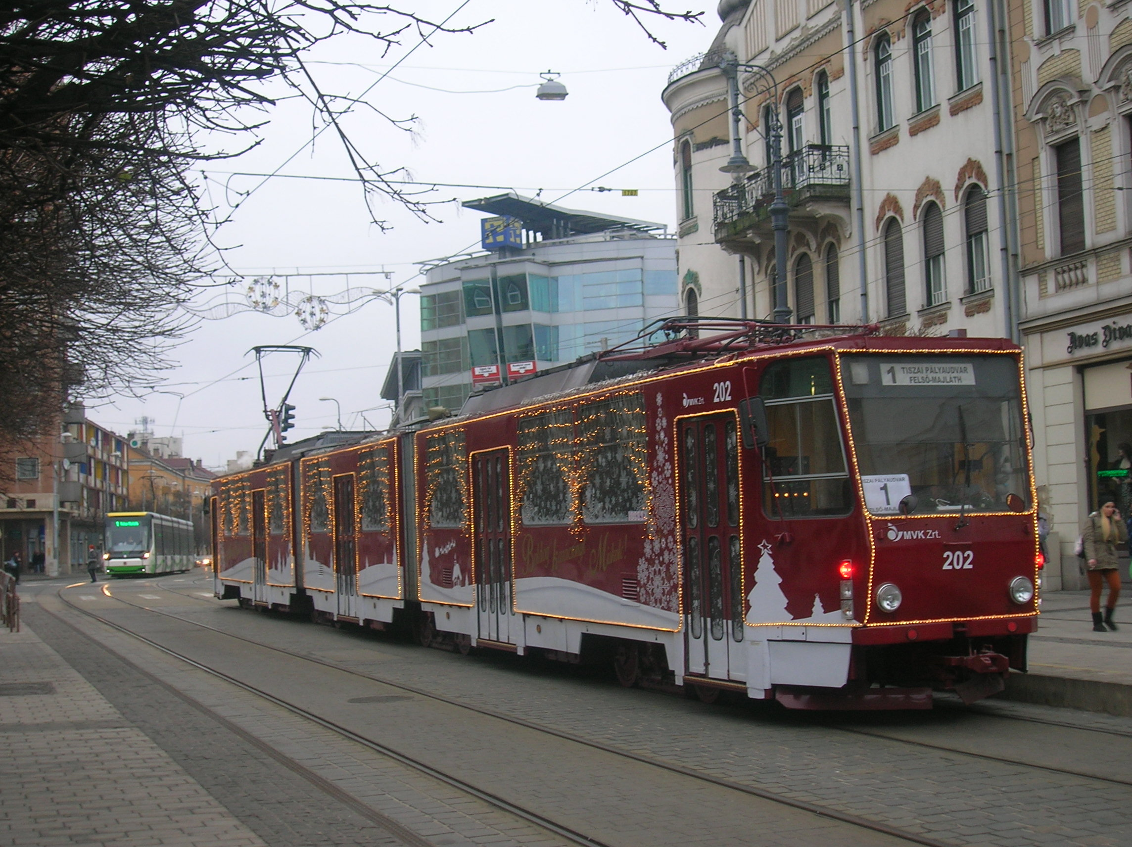 Christmas tram in Miskolc, Hungary, in 2015